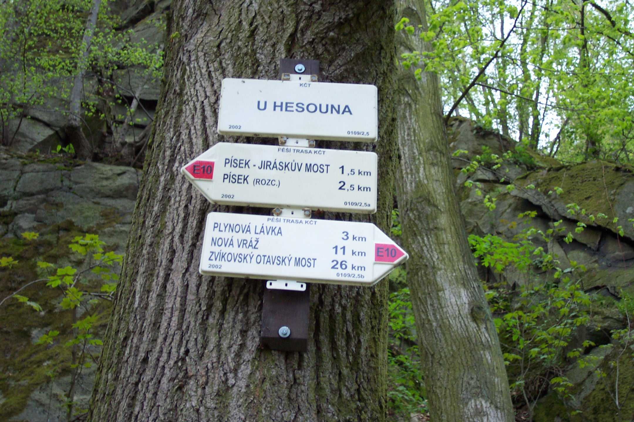 Touristic signs at Sedláčkova stezka, near Písek, Czech Republic